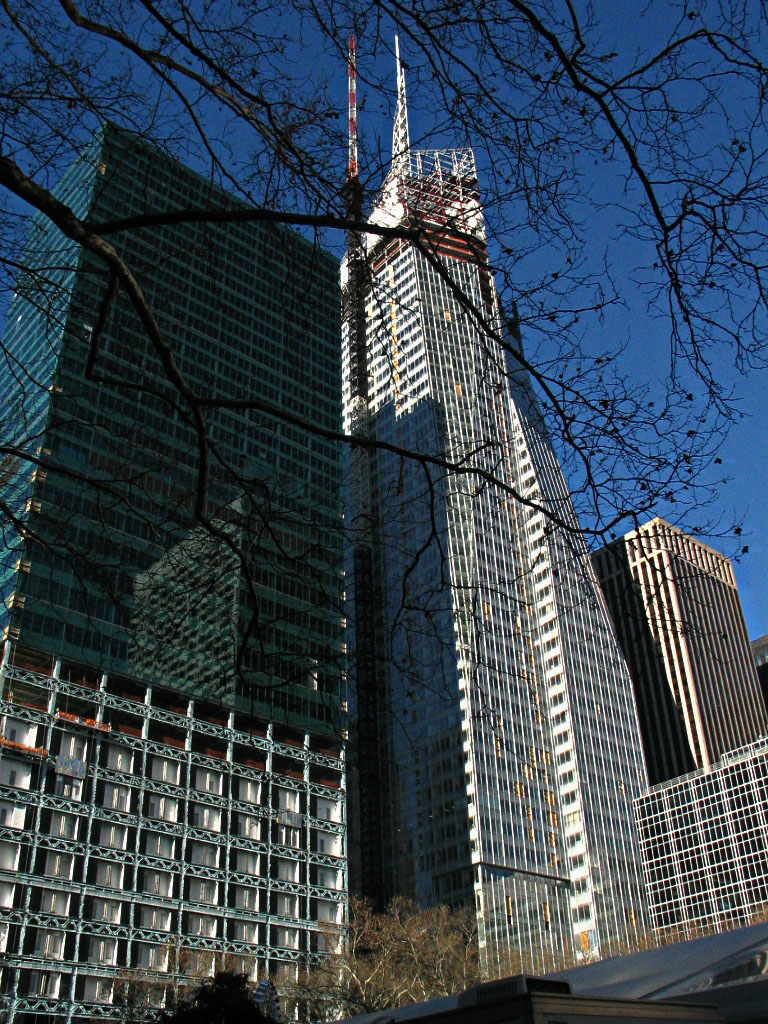 Bank of America tower, as seen from Bryant Park